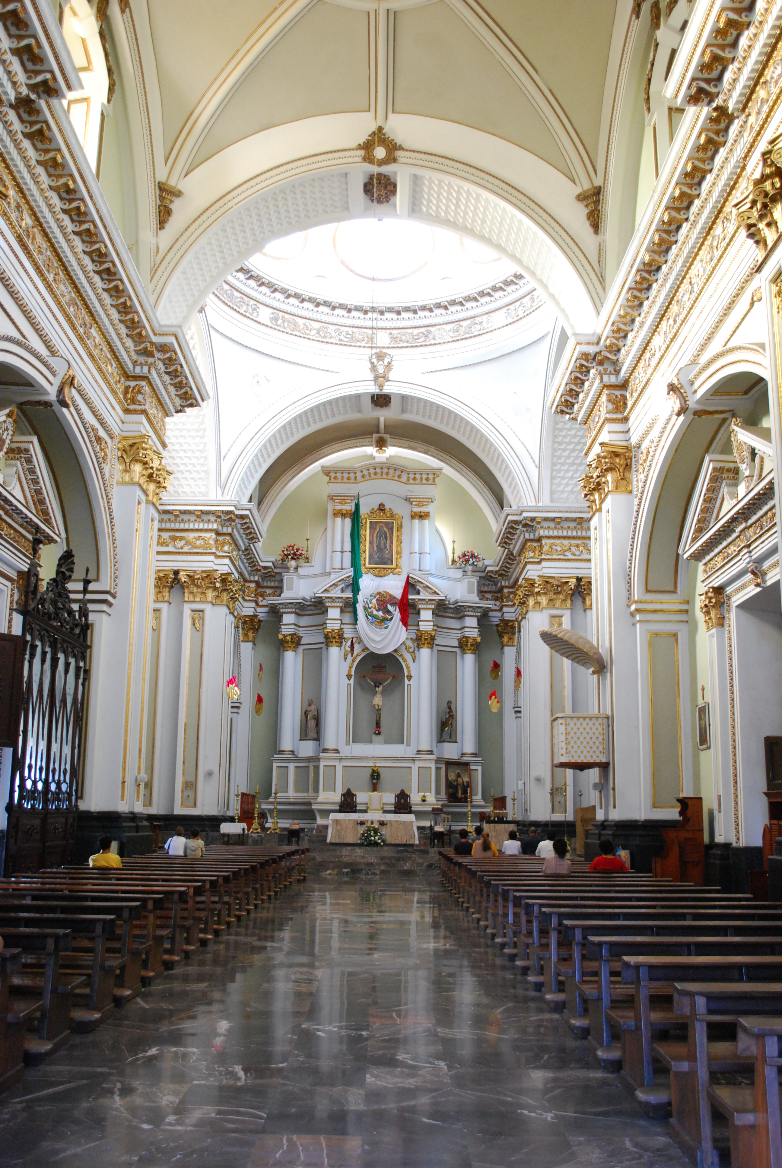 Nave of the Colima Cathedral in Mexico